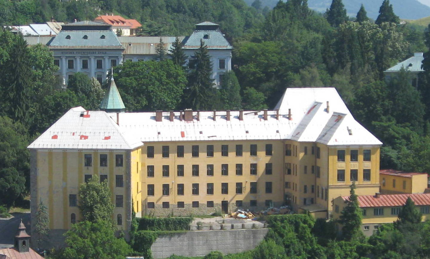 Former Academy of Mining and Forestry, Banksa Stiavnica, Slovakia